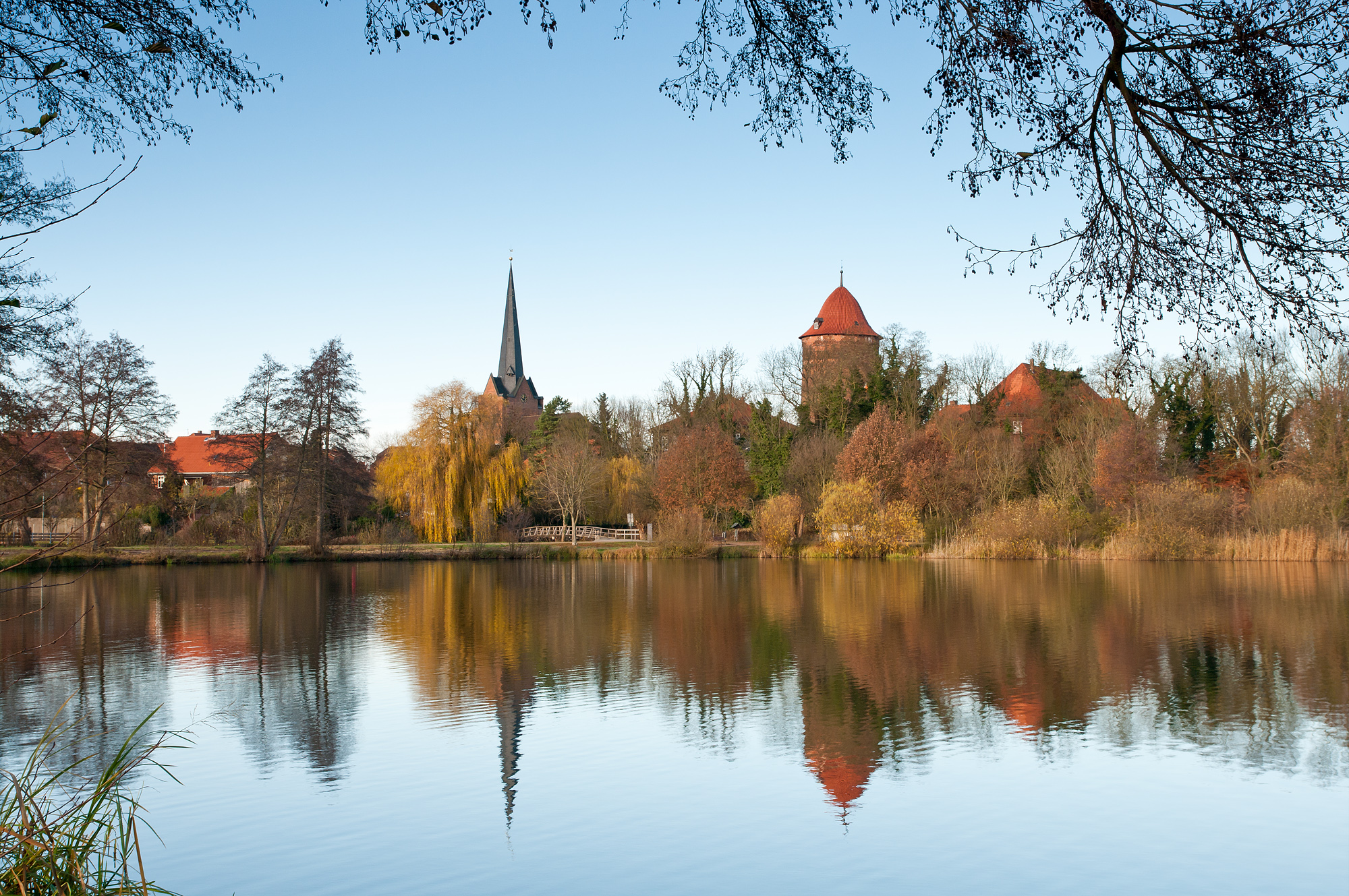 View from the lake "Thielenburger See" to the old town skyline of Dannenberg (Elbe) in late autumn. You can see both town landmarks, the church St. Johannis and the castle tower "Waldemarturm".